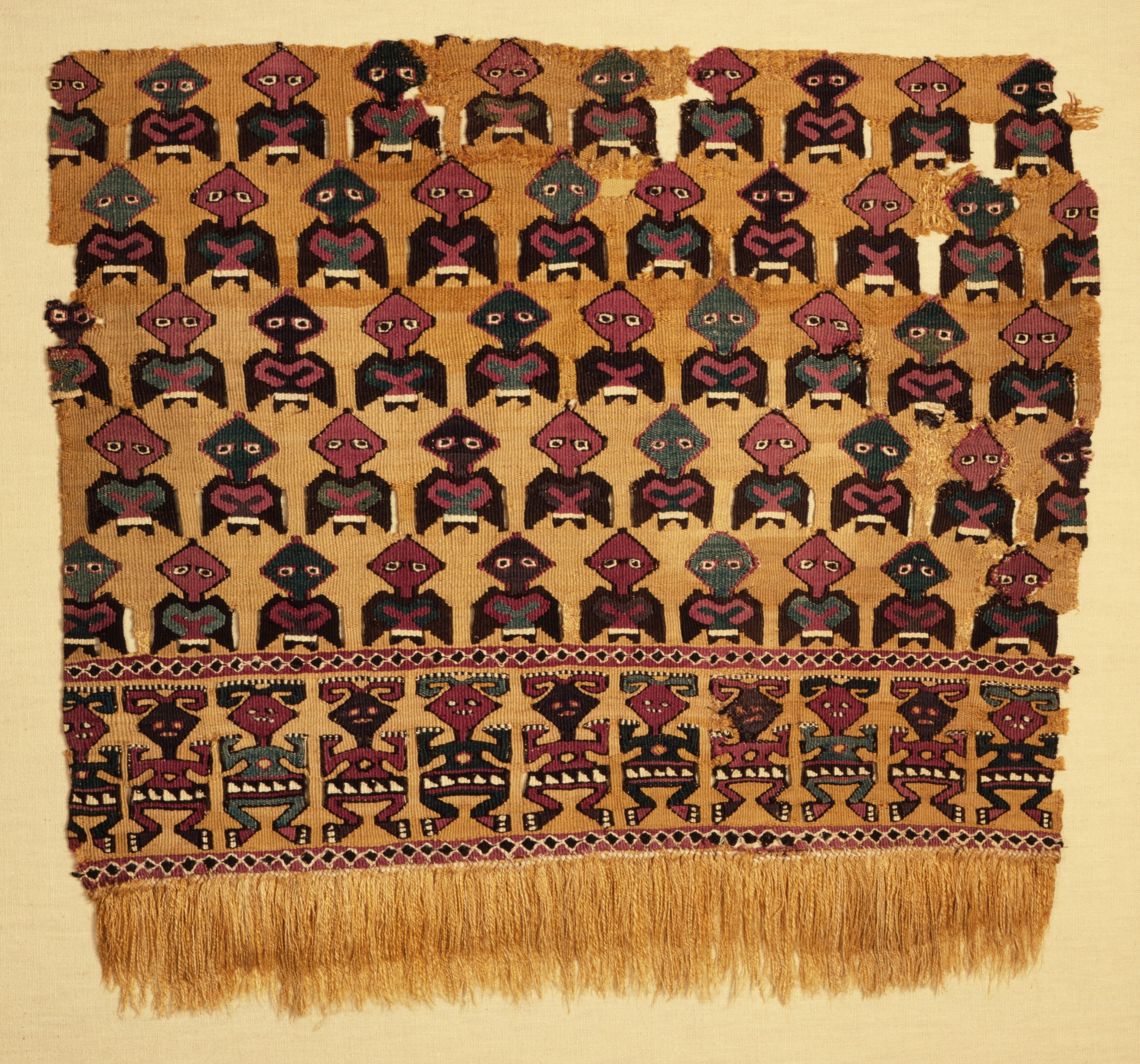 Peru, Central Coast, Chancay, 1000-1470 Textiles Camelid fiber and cotton; slit tapestry with eccentric weave and applied fringe 16 3/4 x 18 in. (42.55 x 45.72 cm) including fringe Costume Council and Museum Associates Purchase (M.76.45.13) Costume and Textiles